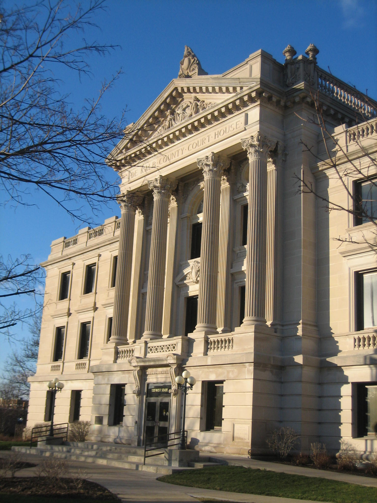 DeKalb County Courthouse, Sycamore, Illinois, Part of the Sycamore Historic District. National Register of Historic Places.